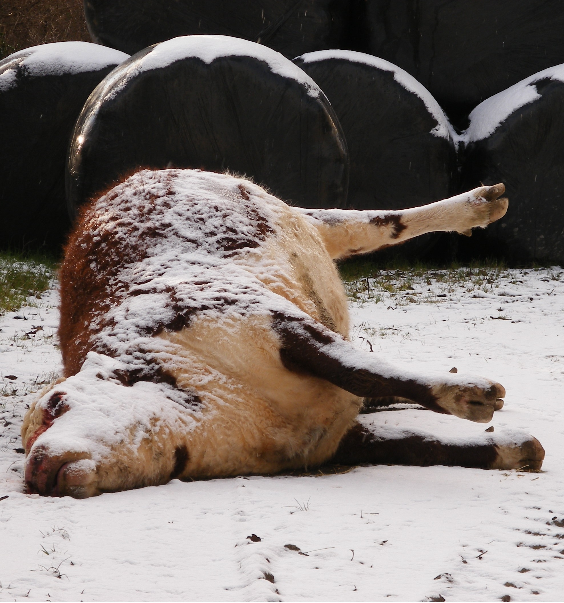 Dead bullock in winter snow, Montgomeryshire, Wales